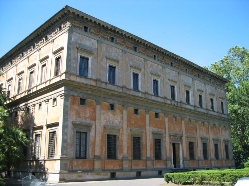 Villa Farnesina, Rome Baldassare Peruzzi (1481–1537) Alternative namesBaldassare Peruzzi, Baldassarre PeruzziDescription Italian architect Date of birth/death7 March 14816 January 1537Location of birth/deathSienaRomeWork locationRome, Bologna, ToscanaAuthority control VIAF: 39646794 LCCN: n83032025 GND: 118740091 BnF: cb14957480k ULAN: 500030776 ISNI: 000000008118944X WorldCat